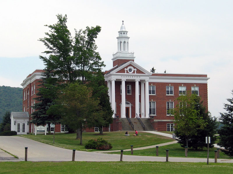 Description: Photograph of Woodruff Hall at Castleton State College Source: Photograph taken by Jared C. Benedict on 01 July 2004. Copyright: © Jared C. Benedict. Licensed under the [Creative Commons] license by photographer Jared C. Benedict (myself).